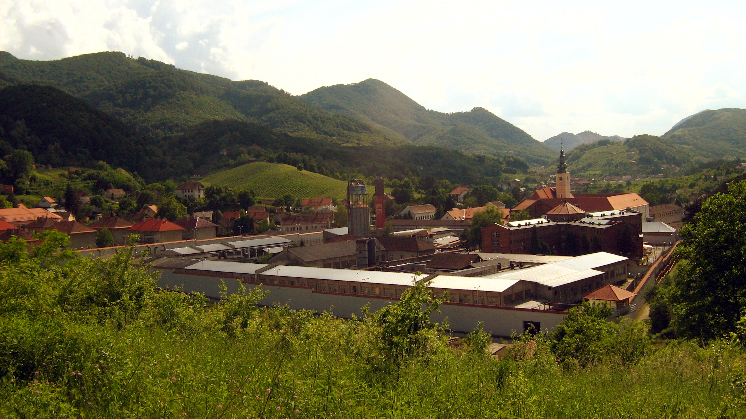 Croatian state penitentiary situated in town Lepoglava in northern Croatia. The Church of the Immaculate Conception of the Blessed Virgin Mary is seen in the background.